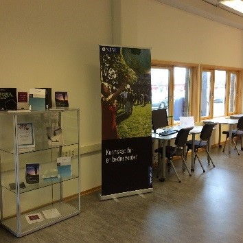 the interior of the newest of the NTNU University libraries, at Moholt in Trondheim, Norway